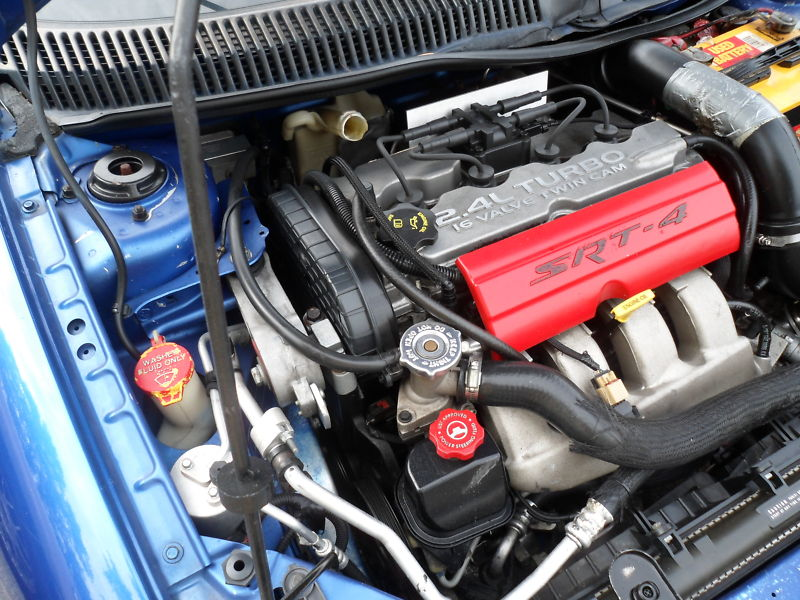 Chrysler DOHC 2.4 Neon Turbo engine used in a Dodge Neon SRT-4